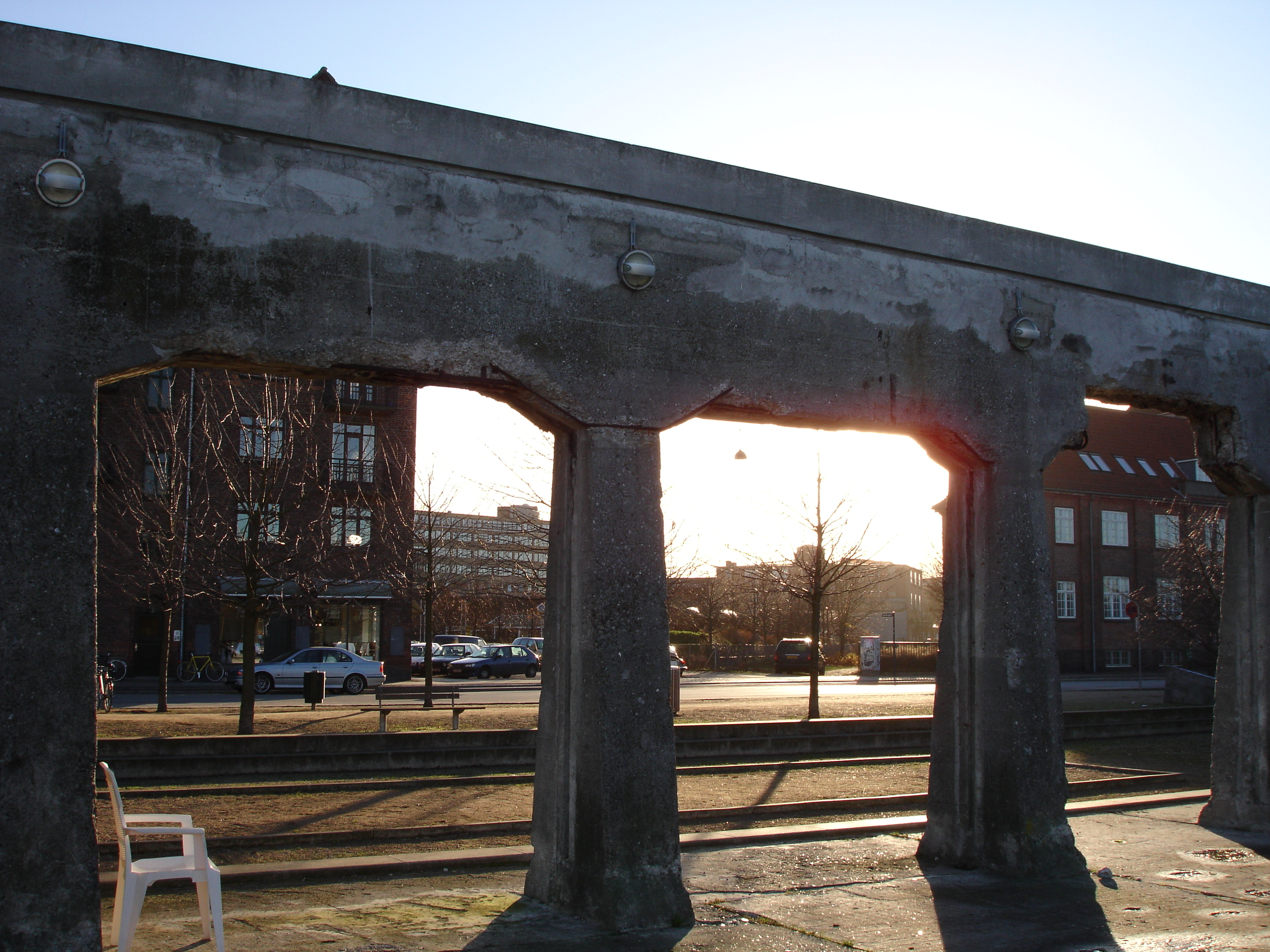 Retained industrial structure at Havneparken in the Islands Brygge district of Copenhagen, Denmark